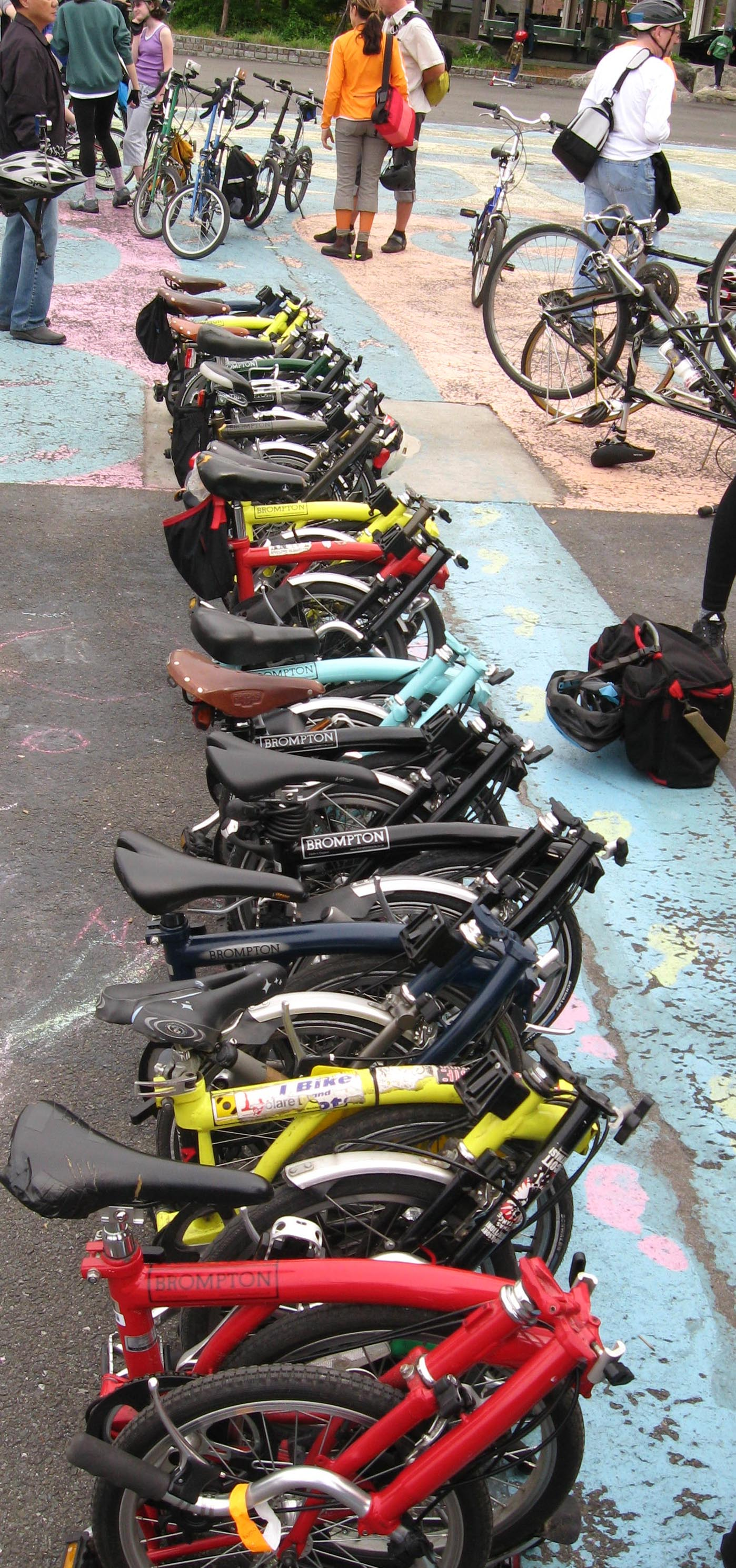 Looking southwest in Stuyvesant Cove Park at East River and 22nd Street, Manhattan, on a cloudy afternoon at a chorus line of folded Brompton Bicycles. About half, including the photographer's, have the stock saddle.